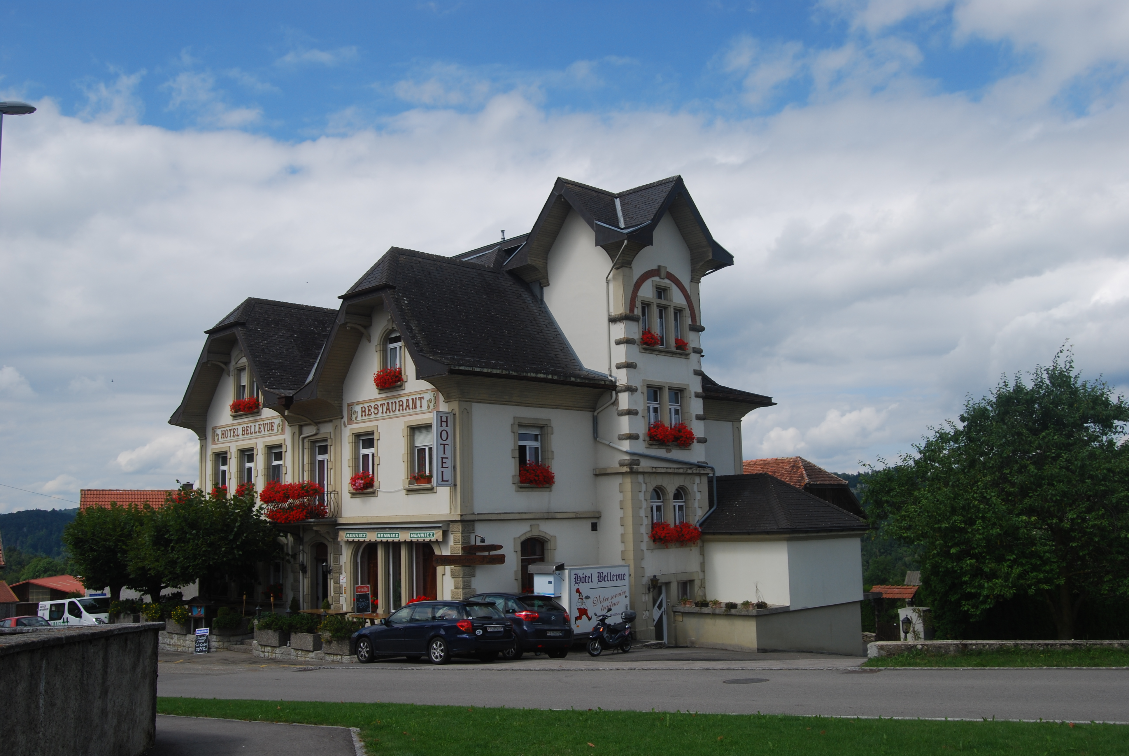 Hotel Bellevue at Saulcy, canton of Jura, Switzerland